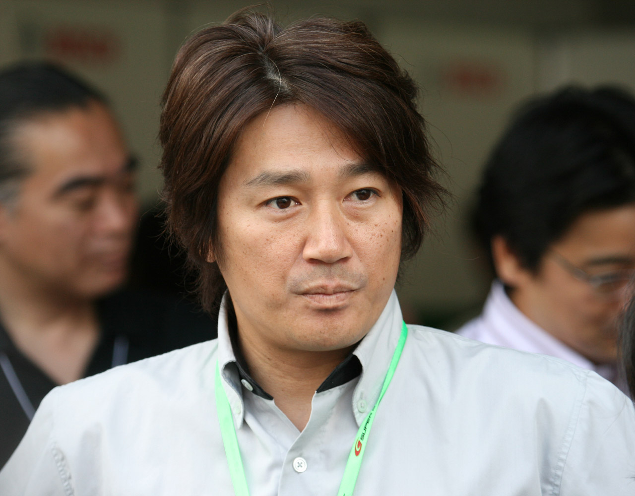 Super GT 2008 Rd.3: Masahiko Kondo, as the team director of Kondo Racing.